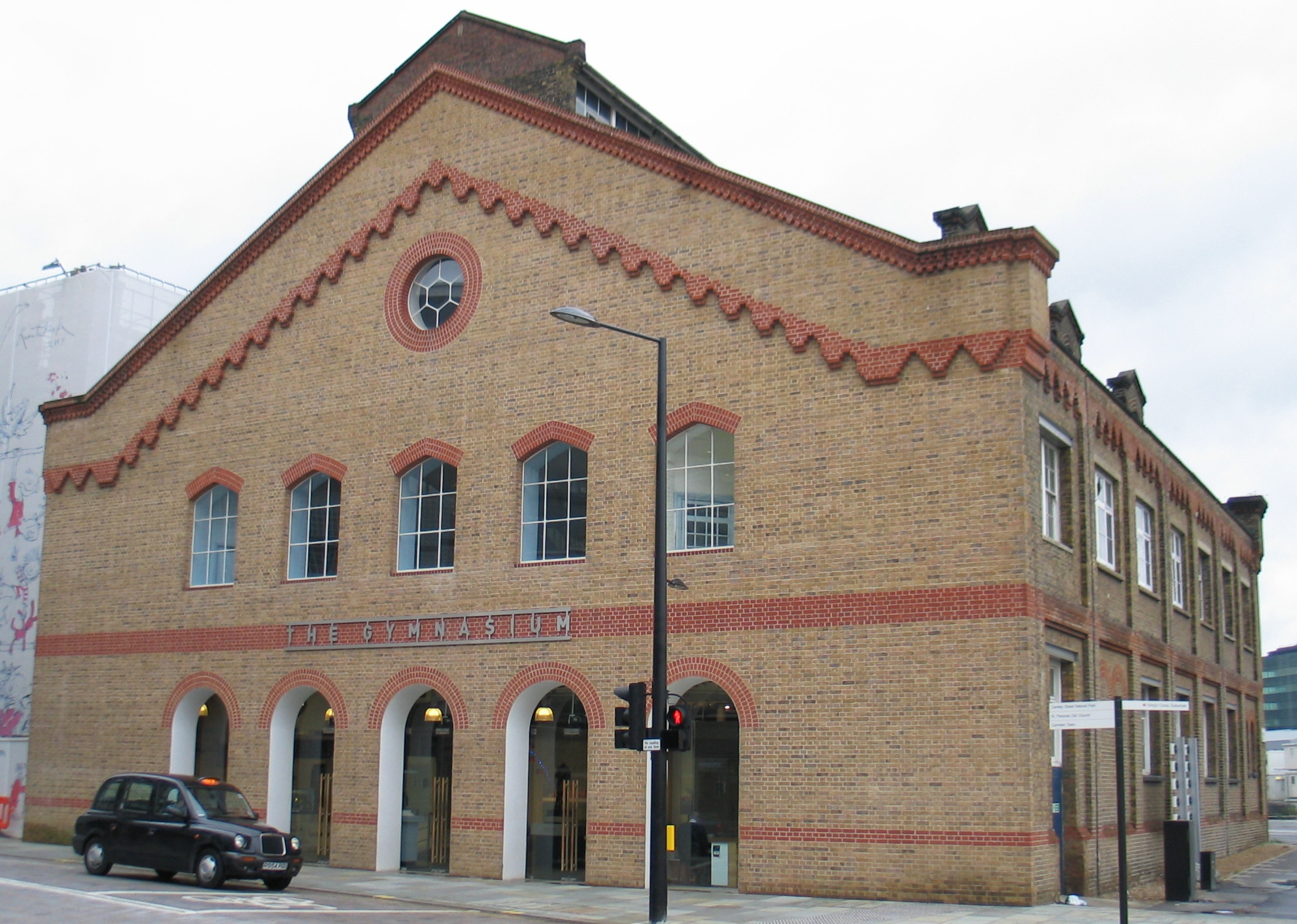 German Gymnasium at St Pancras London as work on restoration of St Pancras railway station (as London's new international railway station) comes to an end. The building is in Pancras Road very close by one of the station entrances.